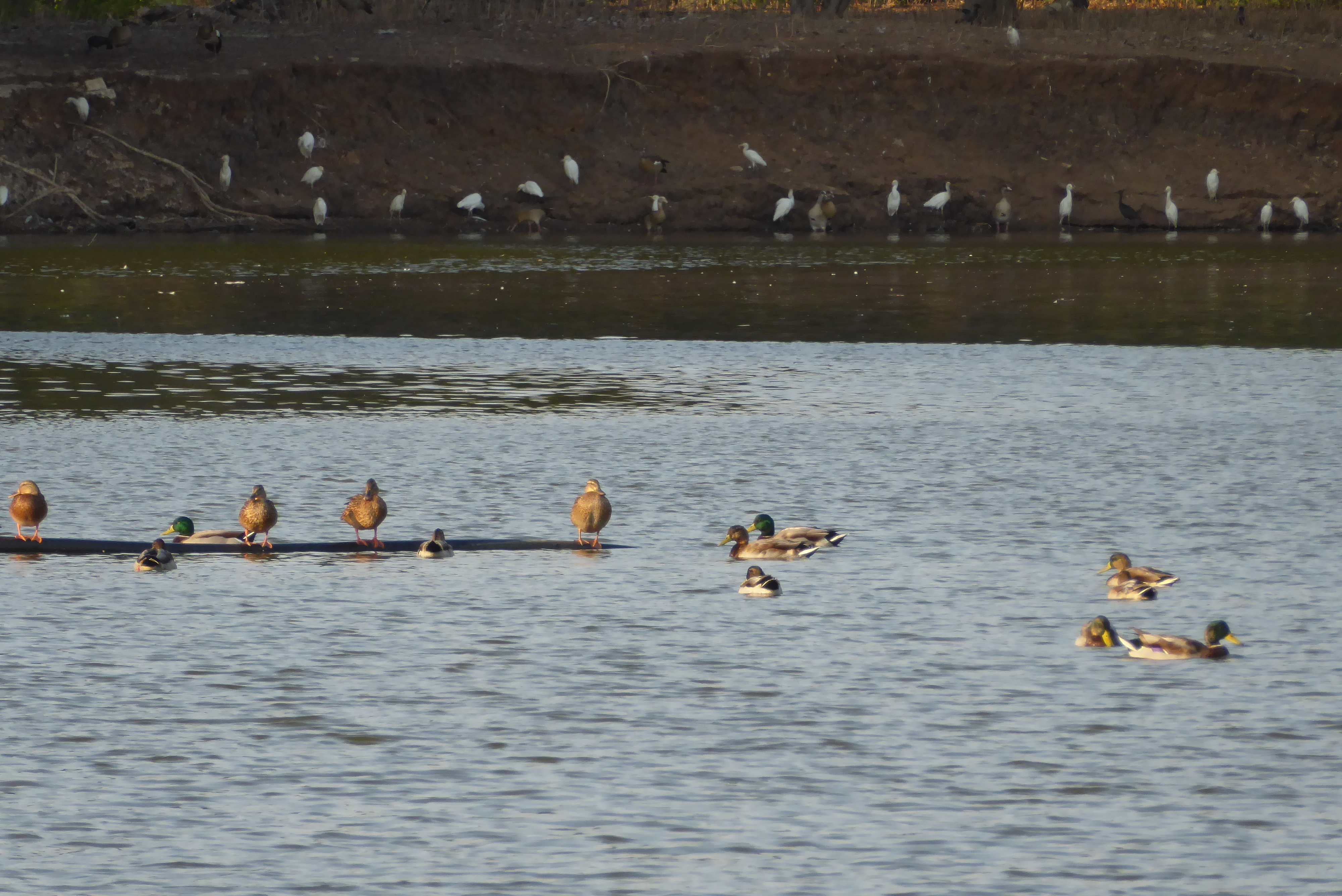 Birds of Ramat Gan, National Park, Ramat Gan